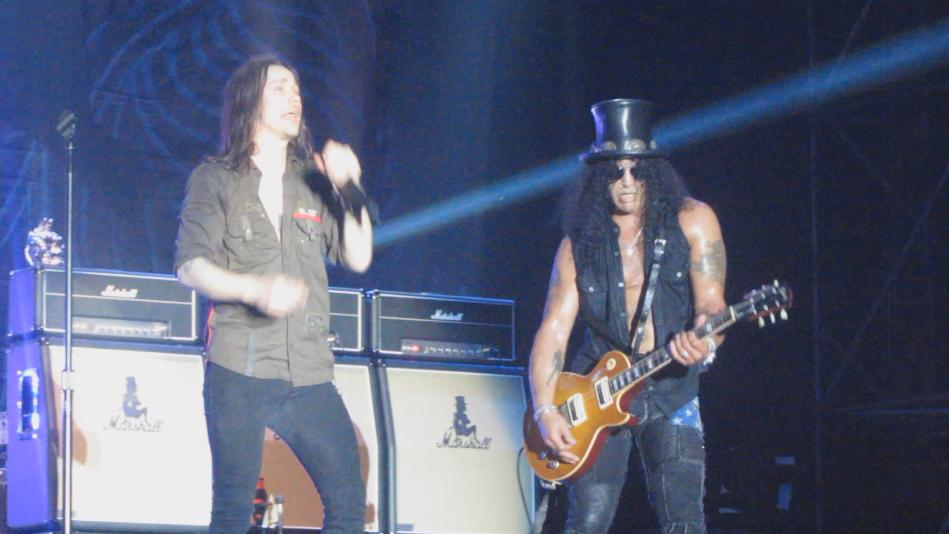 myles kennedy with slash in Rome by Paride